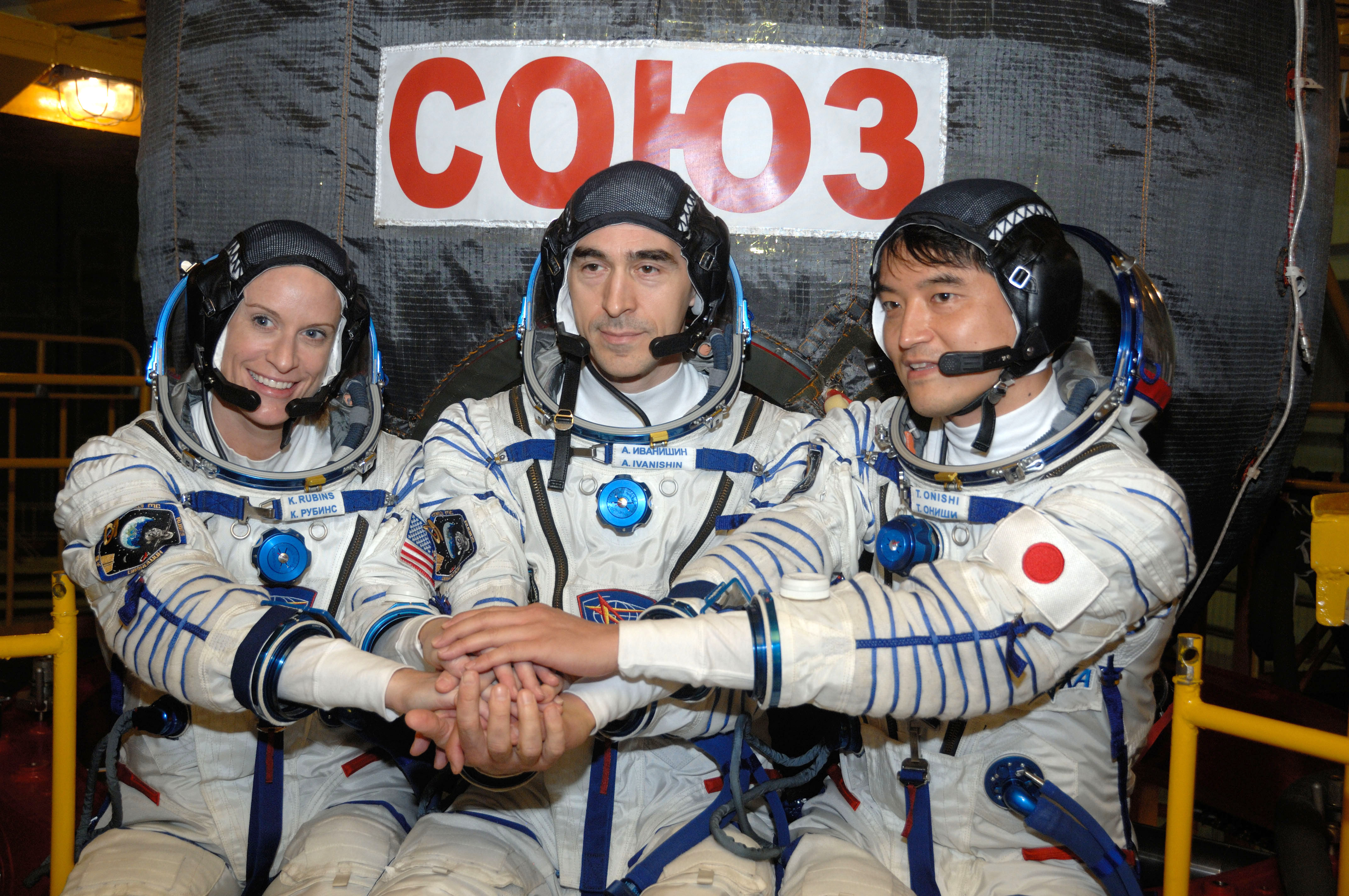 In the Integration Facility at the Baikonur Cosmodrome in Kazakhstan, Expedition 48-49 crewmembers Kate Rubins of NASA (left), Anatoly Ivanishin of Roscosmos (center) and Takuya Onishi of the Japan Aerospace Exploration Agency (right) pose for pictures June 25 in front of the Soyuz MS-01 spacecraft during a "fit check" dress rehearsal activity. The trio will launch on July 7, Baikonur time, on the Soyuz MS-01 for a planned four-month mission on the International Space Station.